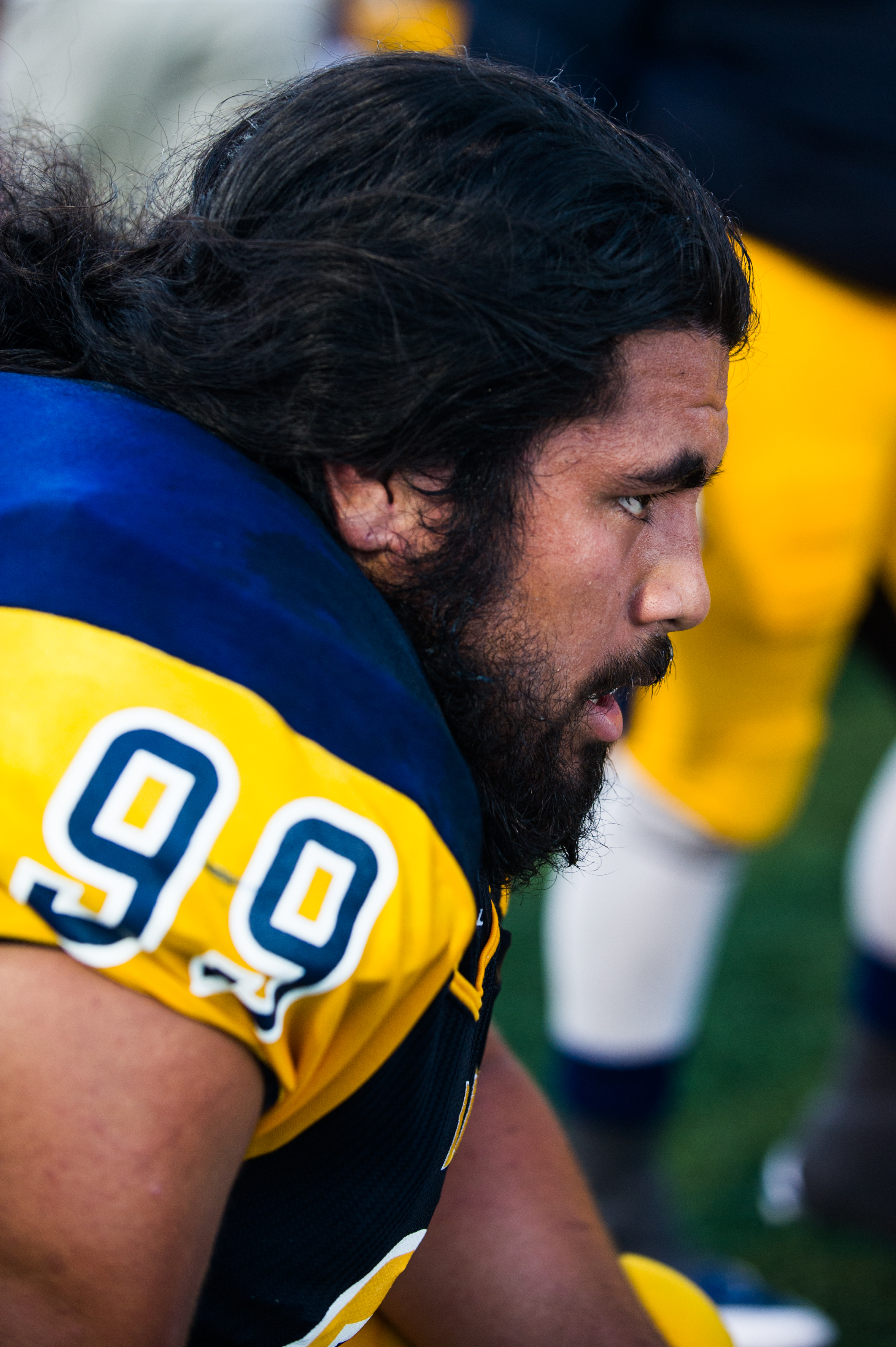 14401-Football vs ETB-8034.jpg Scenes from the East Texas Baptist Tigers vs. Texas A&M–Commerce Lions football game on September 4, 2014.